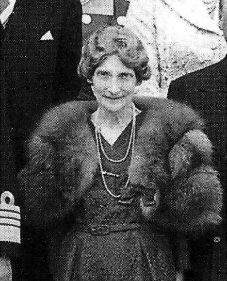 Princess Dagmar of Denmark